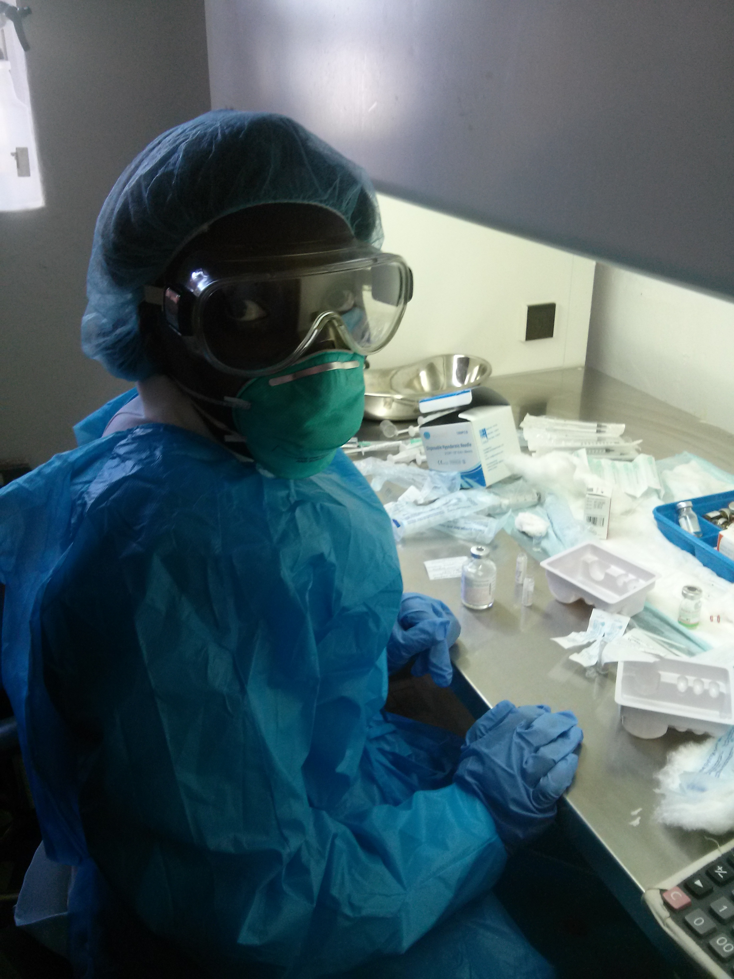 The picture is a photo of a pharmacist reconstituting drugs for chemotherapy at a hospital.A unsung hero. This is an image of "African people at work" from Zambia